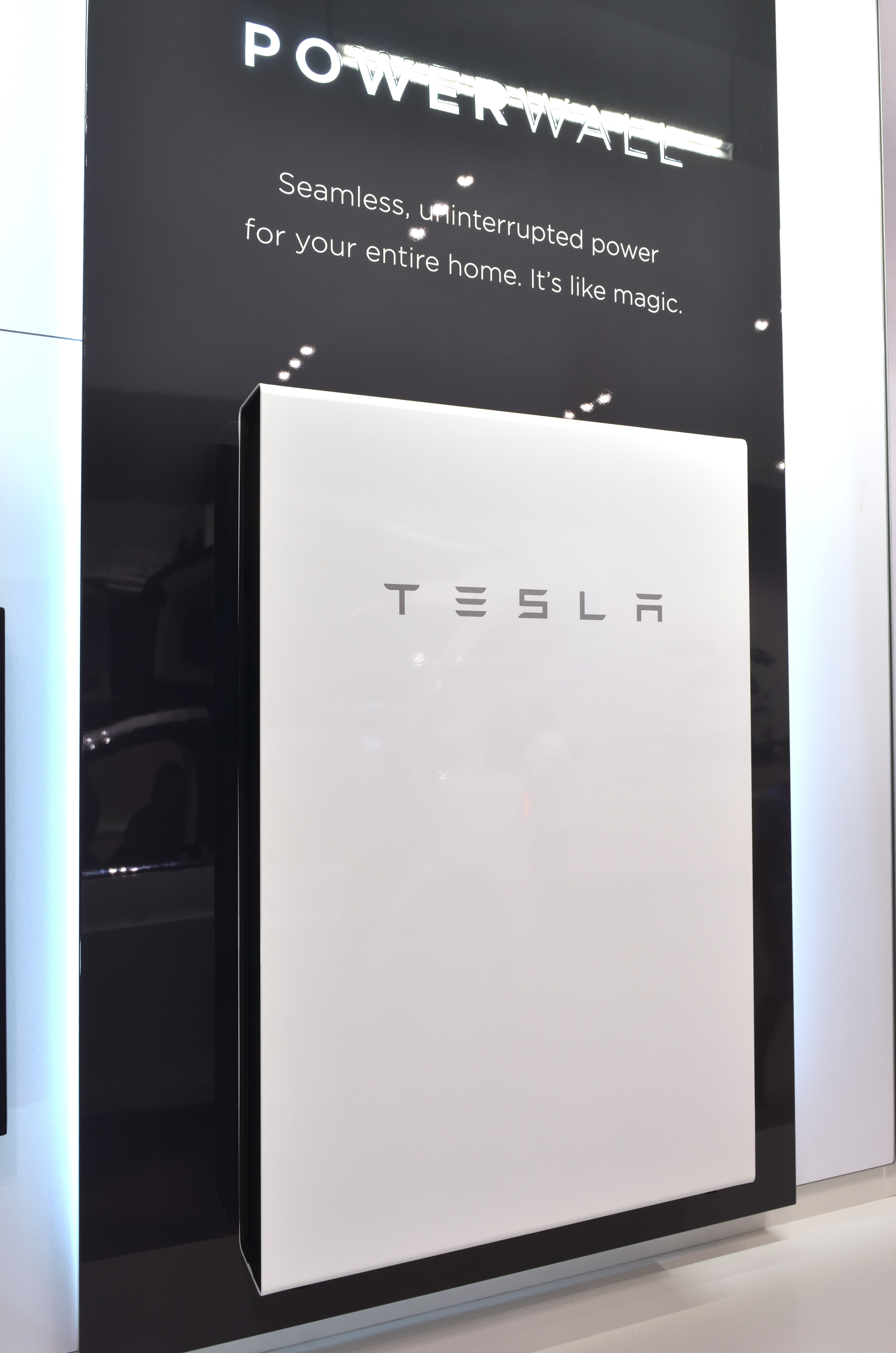 Tesla Powerwall 2